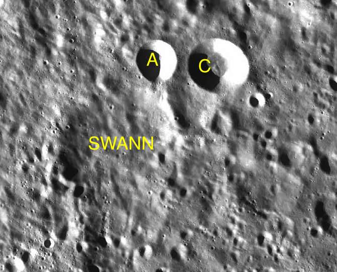 Part of the chart LAC-16 used for the presentation.